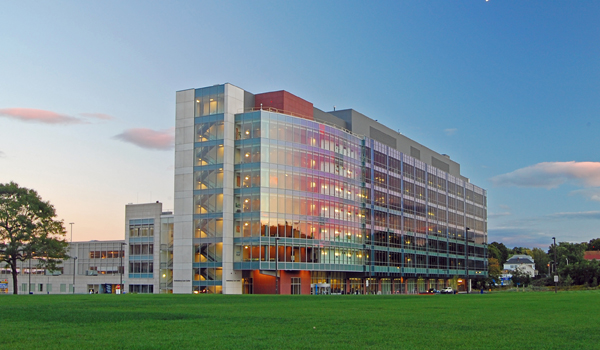 UMMMC ACC building